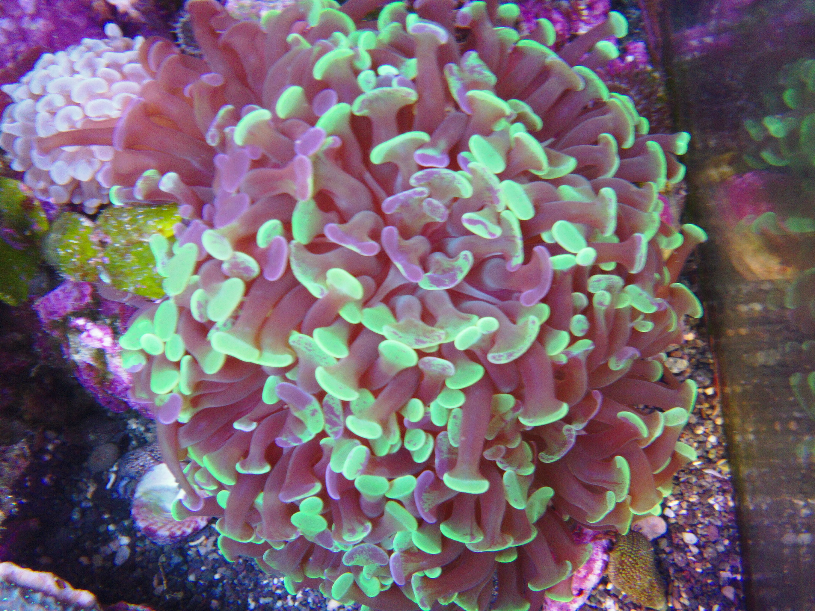 Branching Hammer Coral